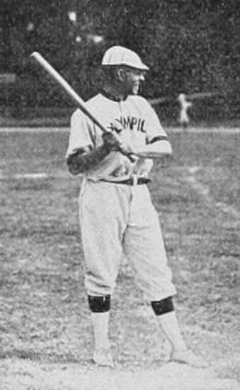 BASEBALL MATCH, U. S. A. v. SWEDEN at the 1912 Summer Olympics. Practice before game. DAVENPORT catcher, HOLDAN batsman